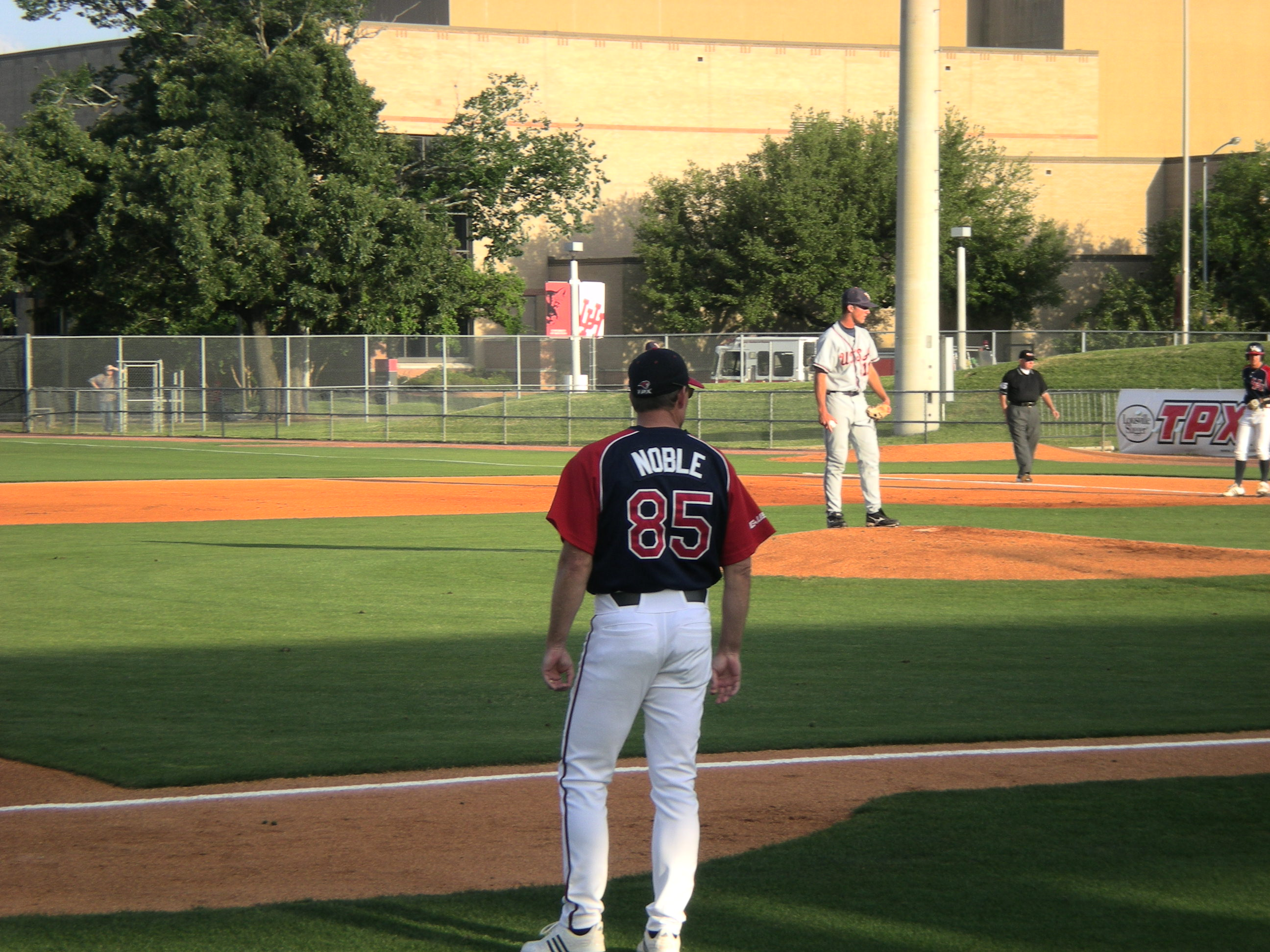 The Houston Cougars baseball head coach, Rayner Noble, from behind.